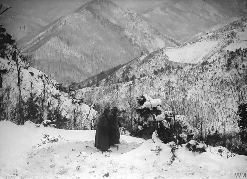 King Peter I of Serbia in the Albanian mountains during the retreat to the Adriatic Sea coast, December 1915